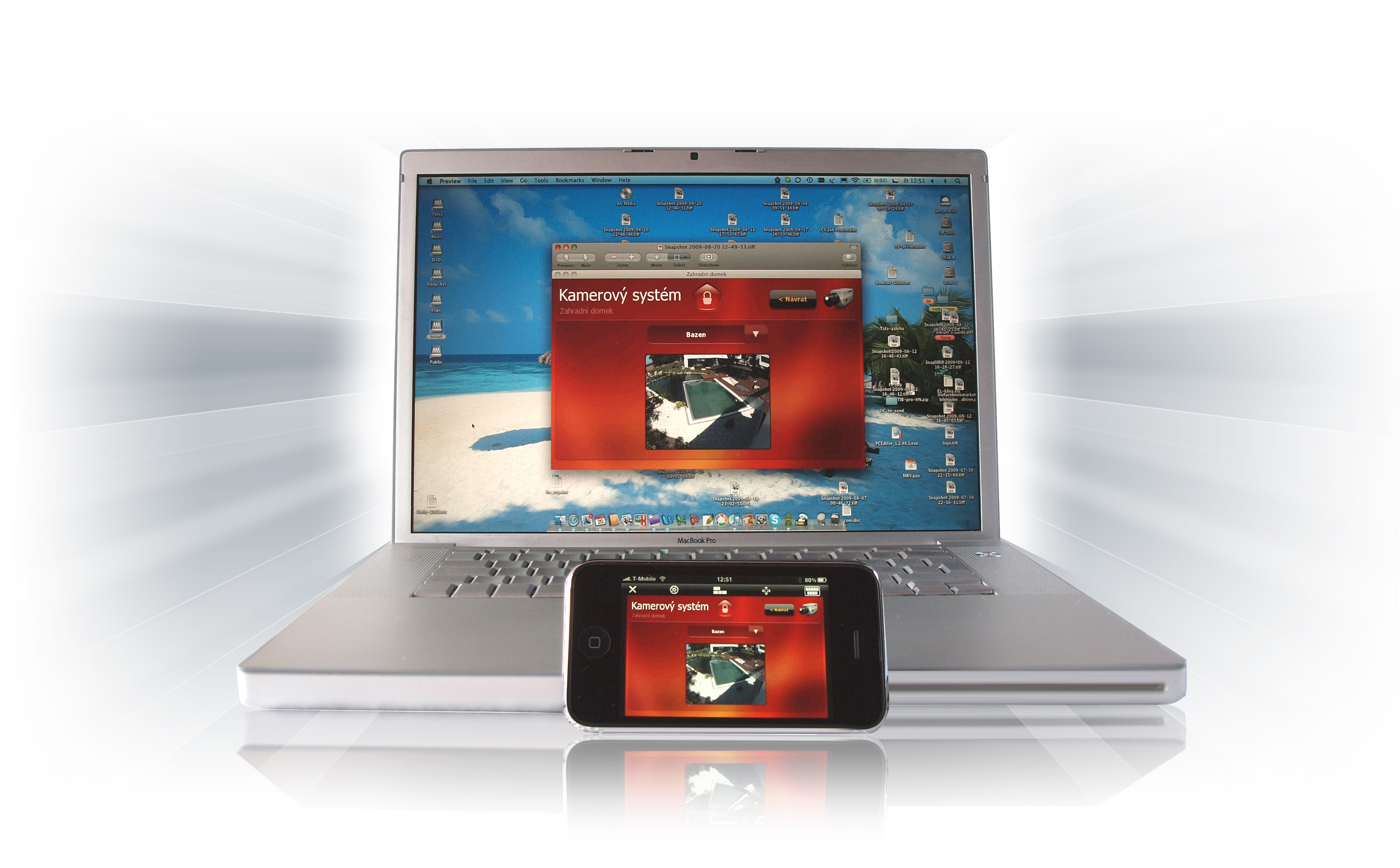 Camera system for an intelligent building